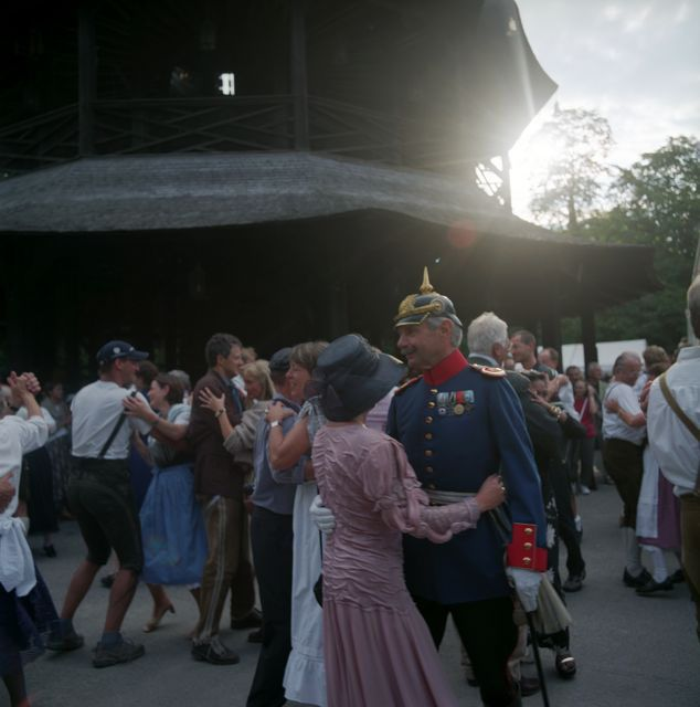 Tradition in Bavaria (Germany). Kocherlball (cooks' ball) in Munich. Photograph from the series Homeland, published in: Bohnenstengel, A. (2002): Bayern, page 8–9